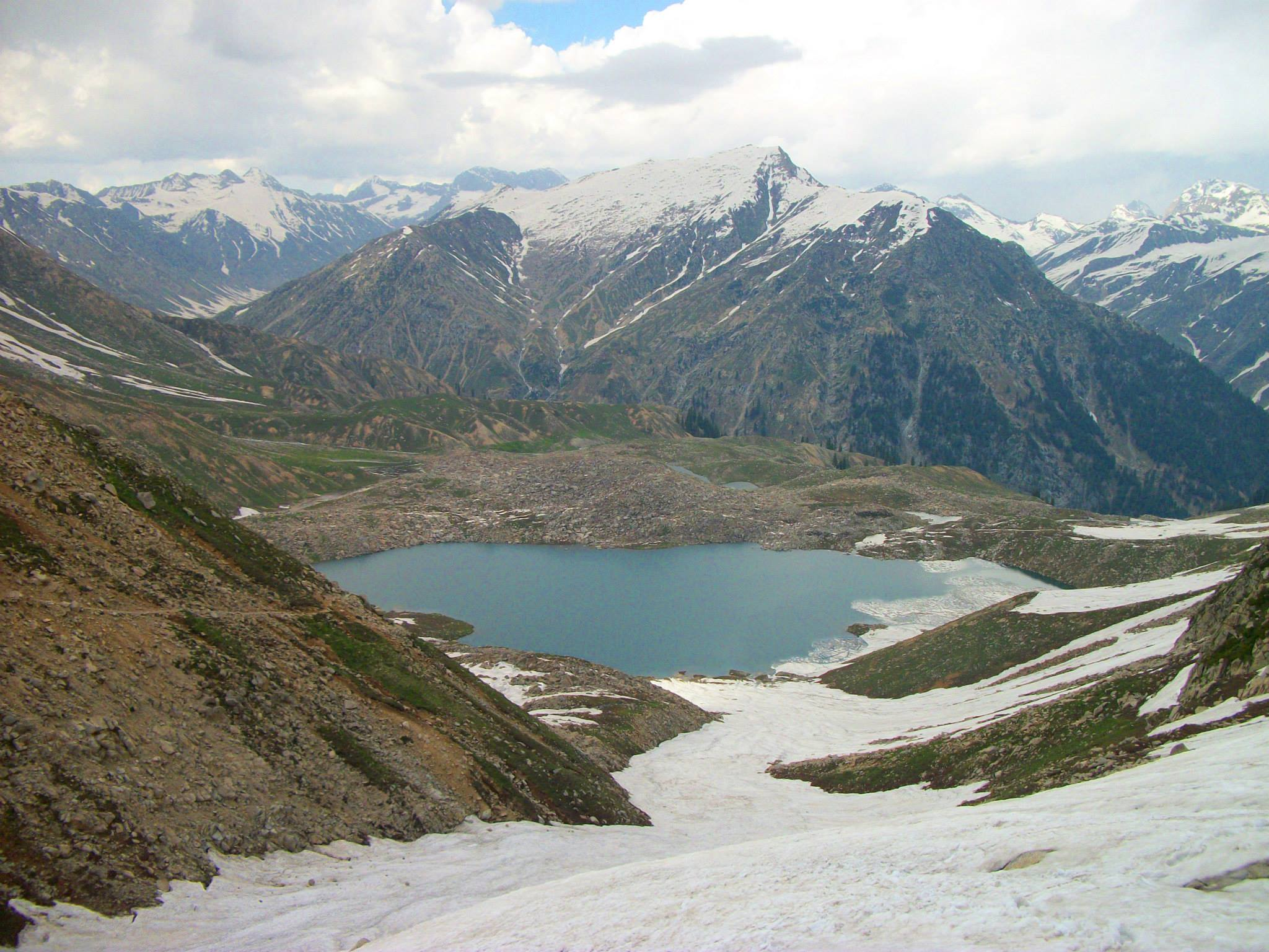 Daral lake Bahrain Swat